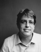 Picture of author Trevor Shane